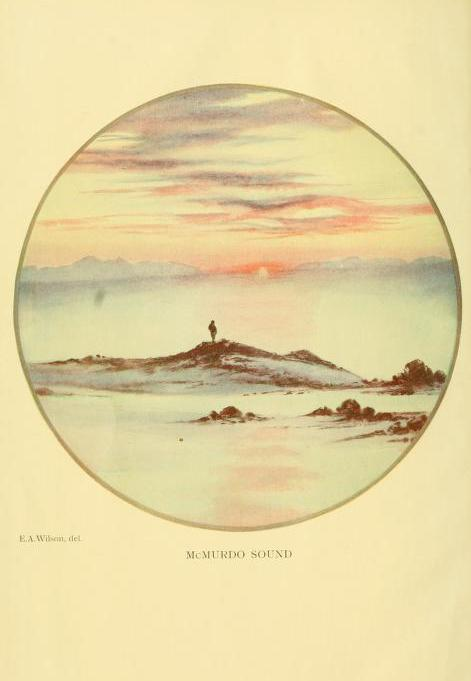 Frontispiece of the first edition of The Worst Journey in the World, vol. 1.